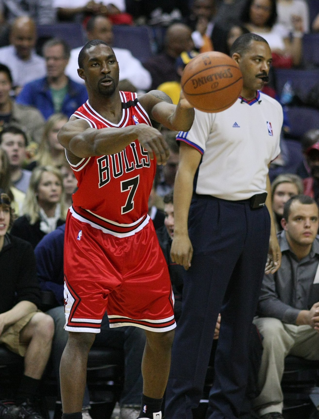 Ben Gordon playing with the Chicago Bulls